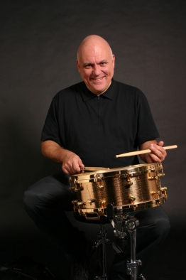 Davide Ragazzoni